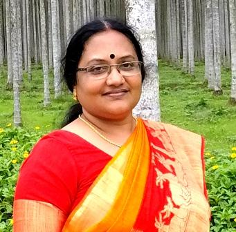 Malayalam Writer